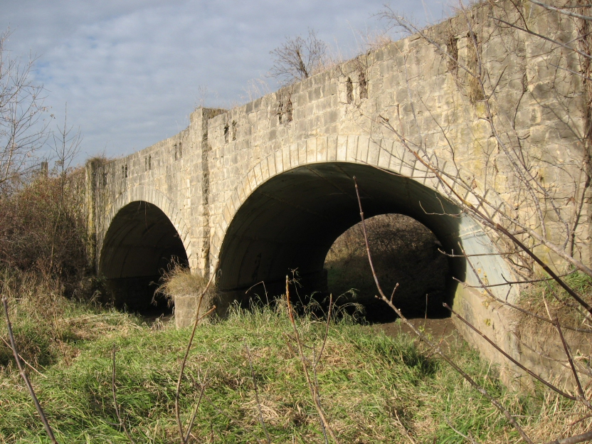 Zumbro Parkway Bridge, also known as Bridge 3219 in Zumbro Falls, Minnesota. Photo taken by User:Mazzmn on 28 Oct 2006.